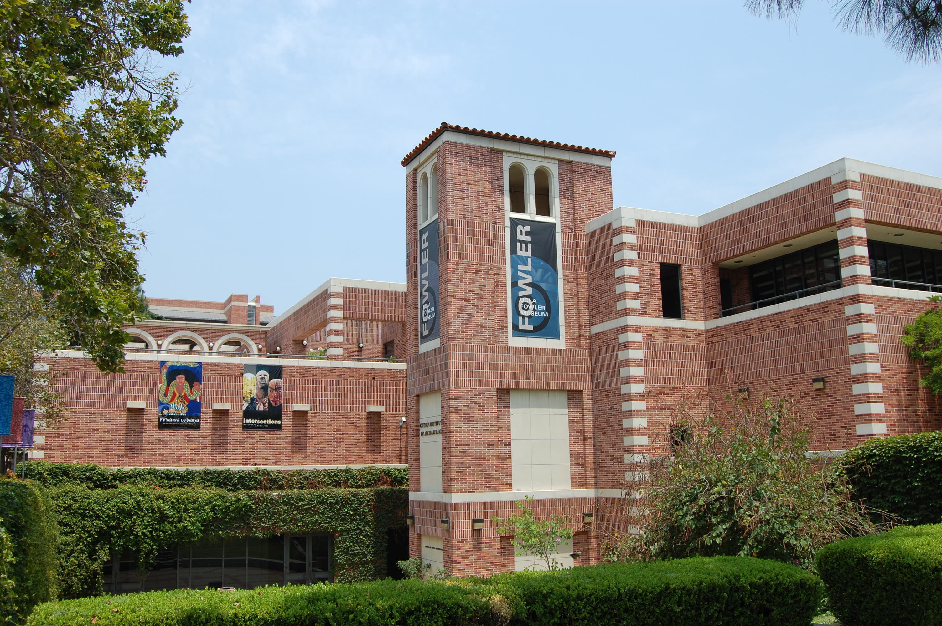 The Fowler Museum at UCLA, from the south-west side.